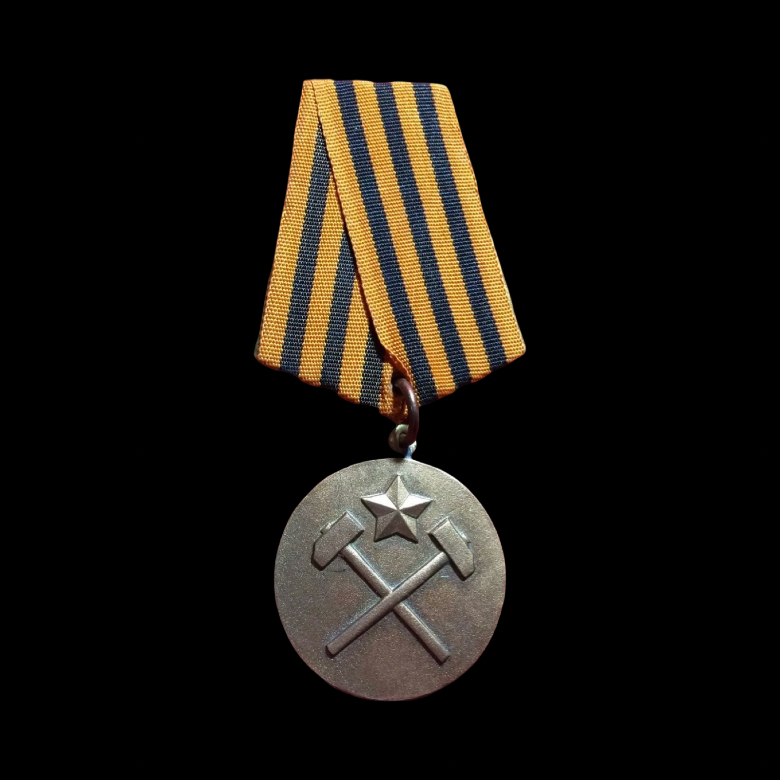 Albanian "Order for exceptional work in Mining and Geology" Class III.